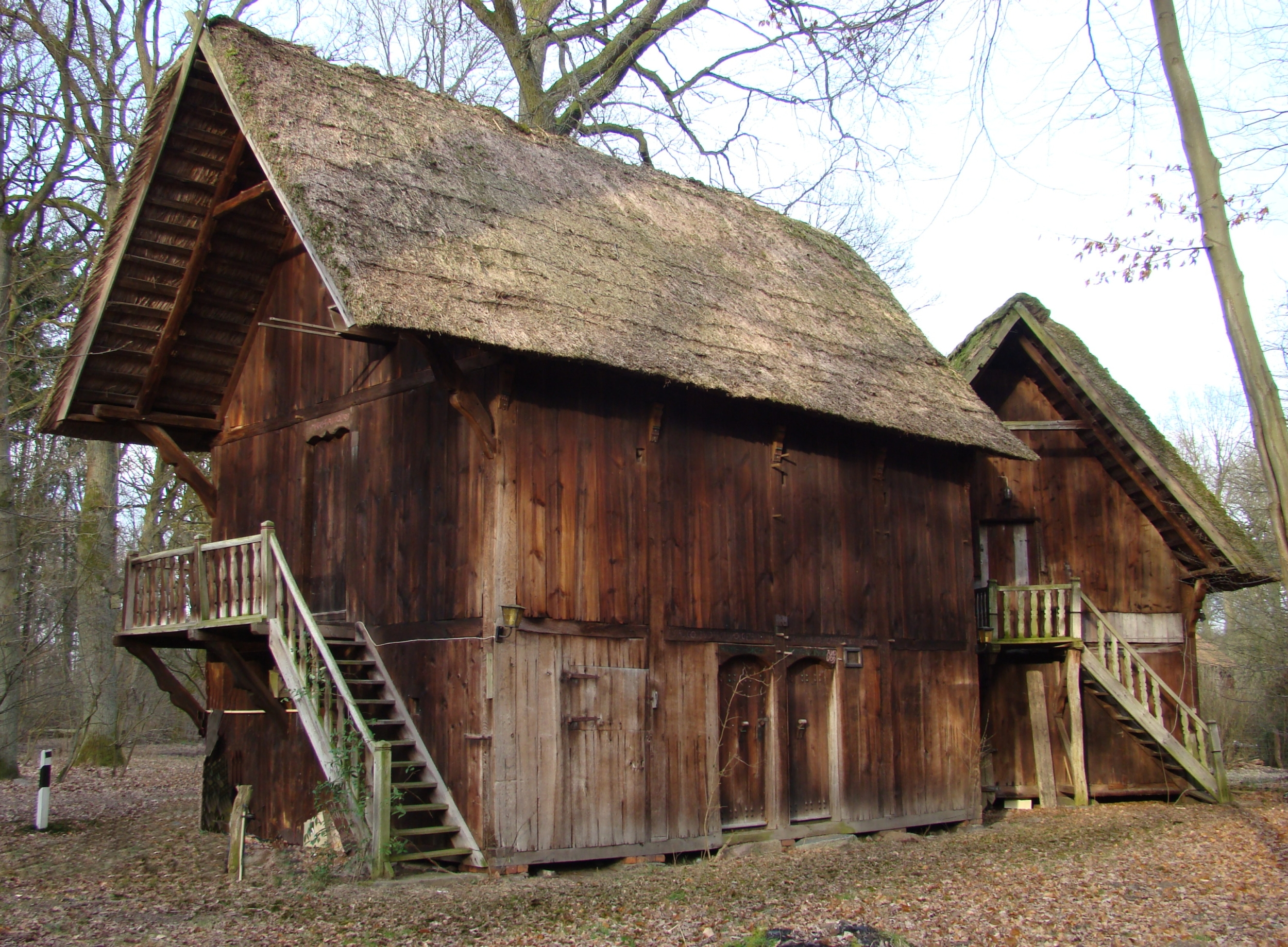 Treppenspeicher (storage barn) at the manor of the Ohe, Oberohe, Lower Saxony, Germany